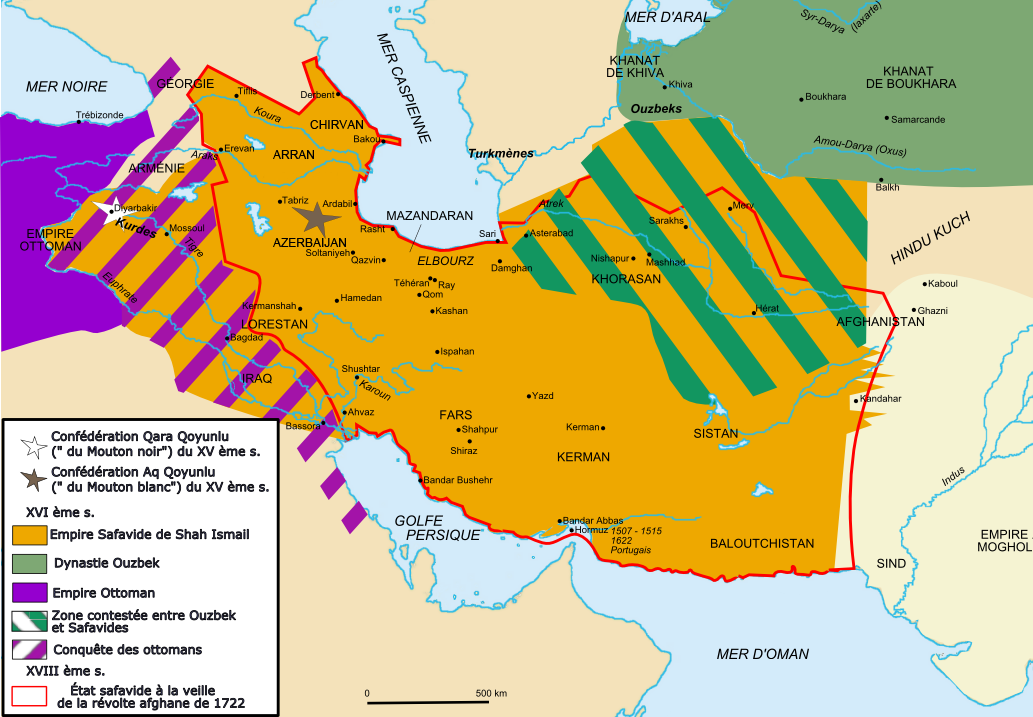 Date14 September 2006 (original upload date)SourceOwn workAuthorFabienkhan Licensing[edit]